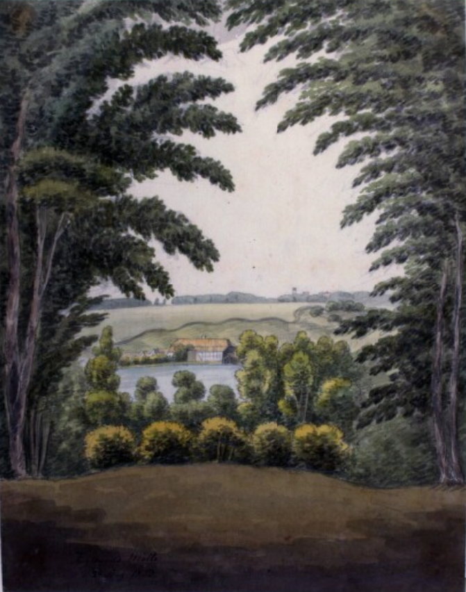 Fuglevads Mölle d. 28. Aug 1823